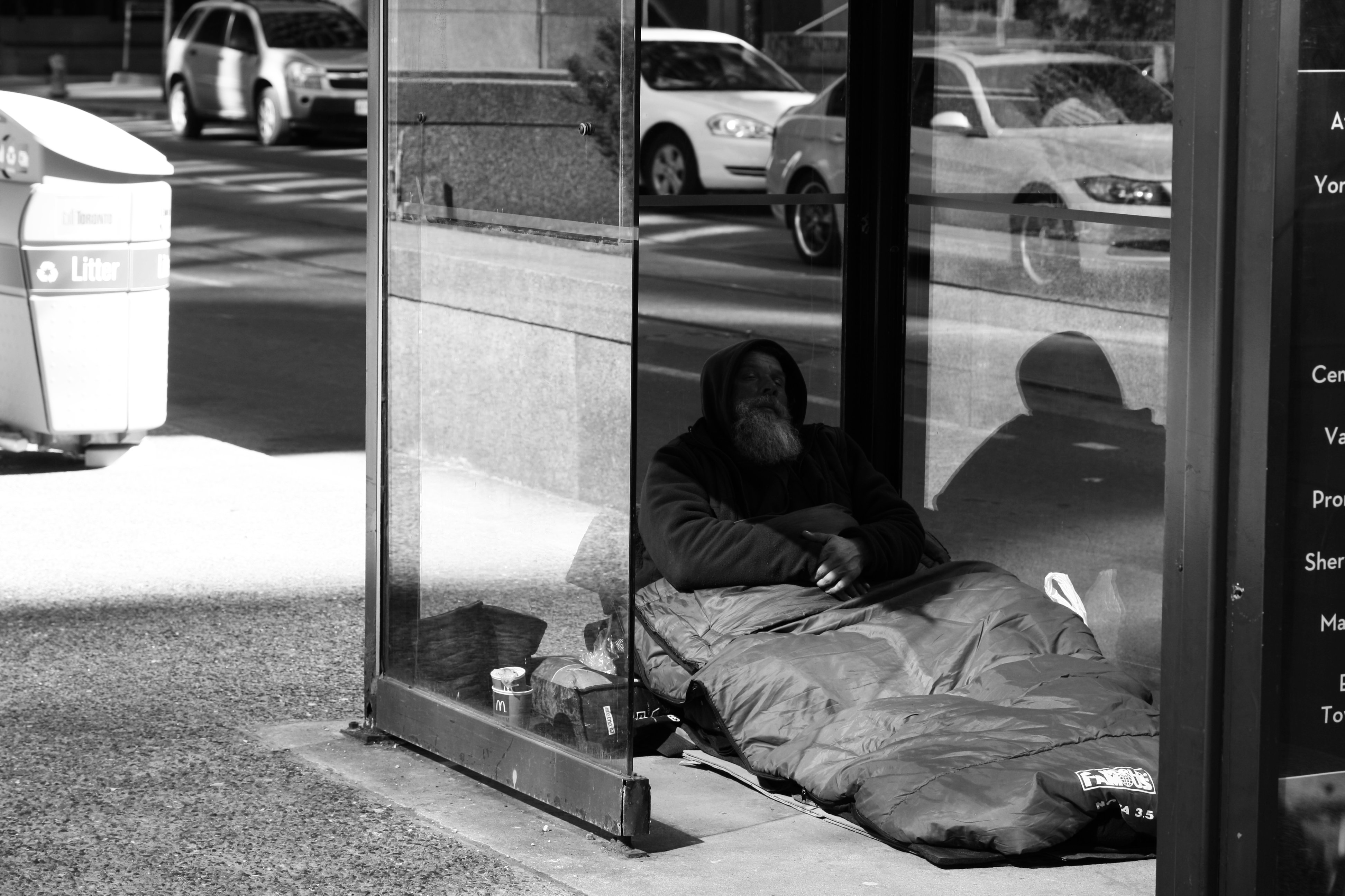 Homeless person in a bus shelter at York and Wellington Streets, downtown Toronto, Ontario, Canada.